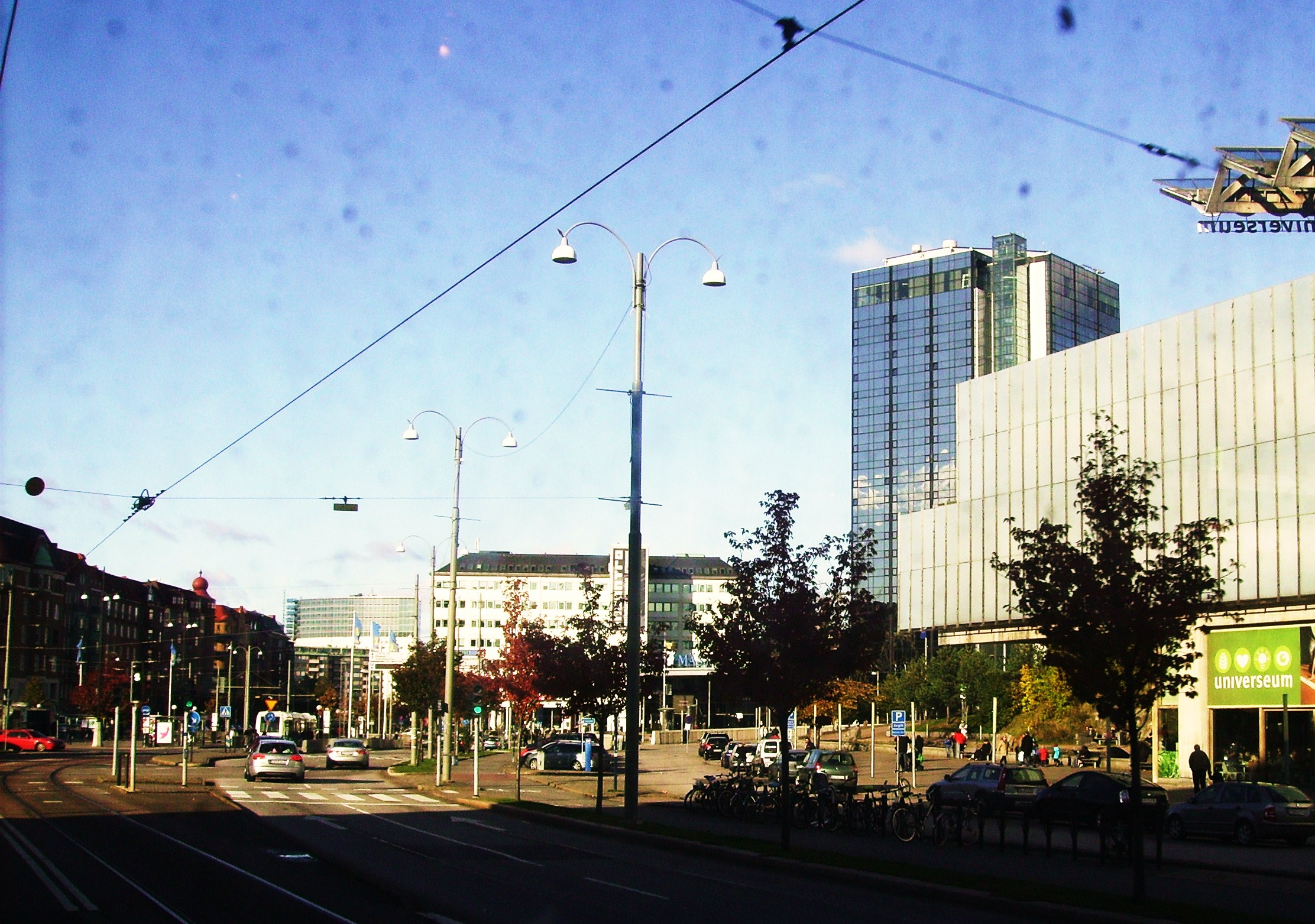 Picture of Evenemangsstråket with hotel, Svenska Mässan and Universeum in Göteborg